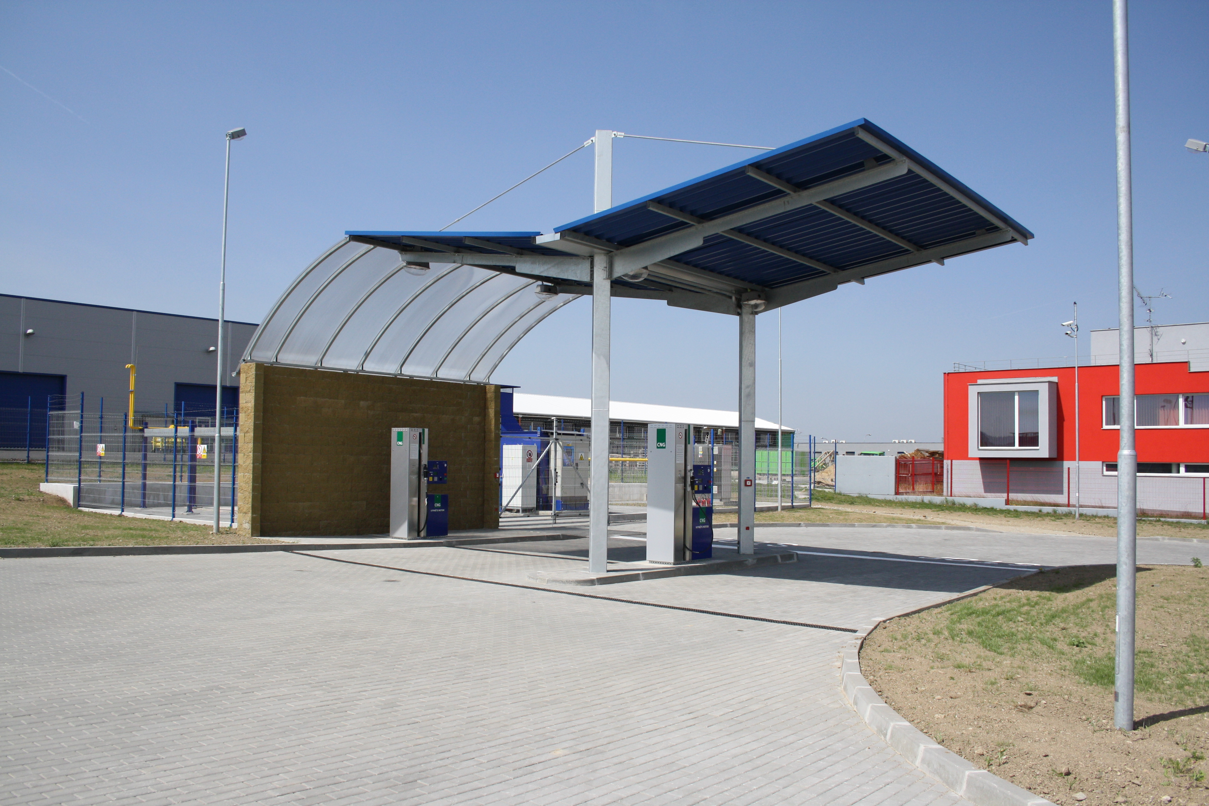 Compressed natural gas station in Třebíč, Czech Republic.